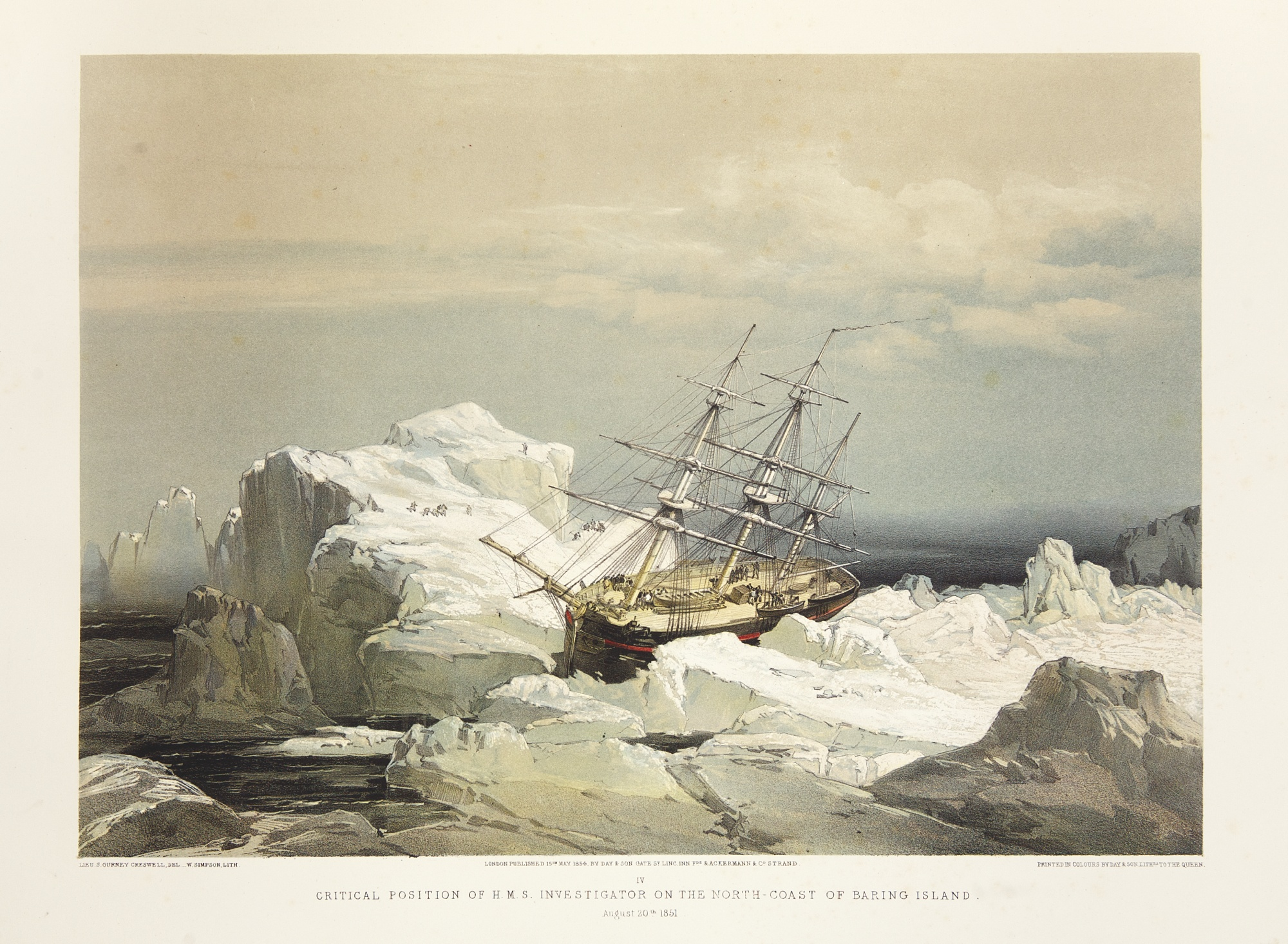 Critical position of HMS Investigator on the north-coast of Baring Island. August 20th. 1851.